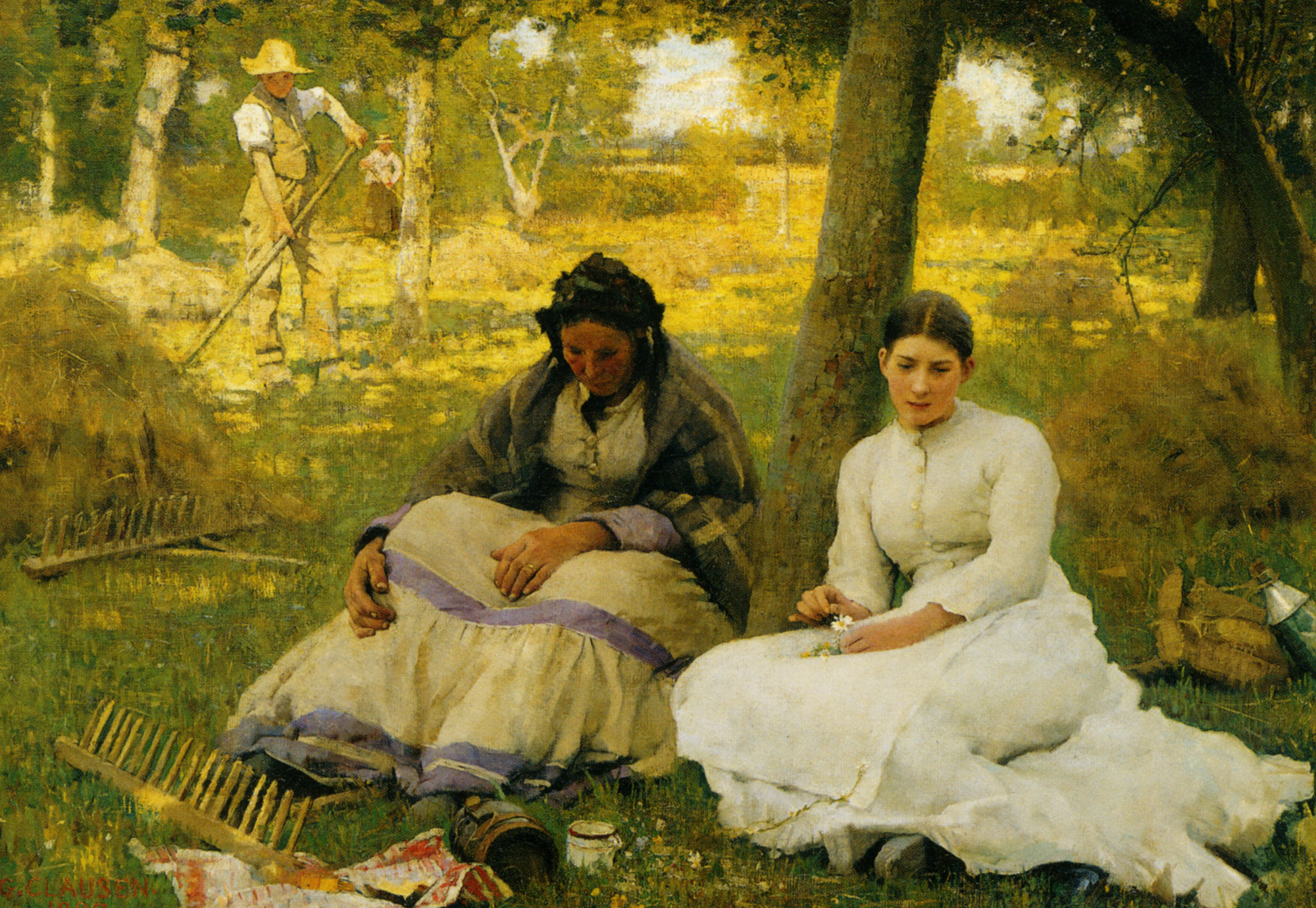 Day Dream